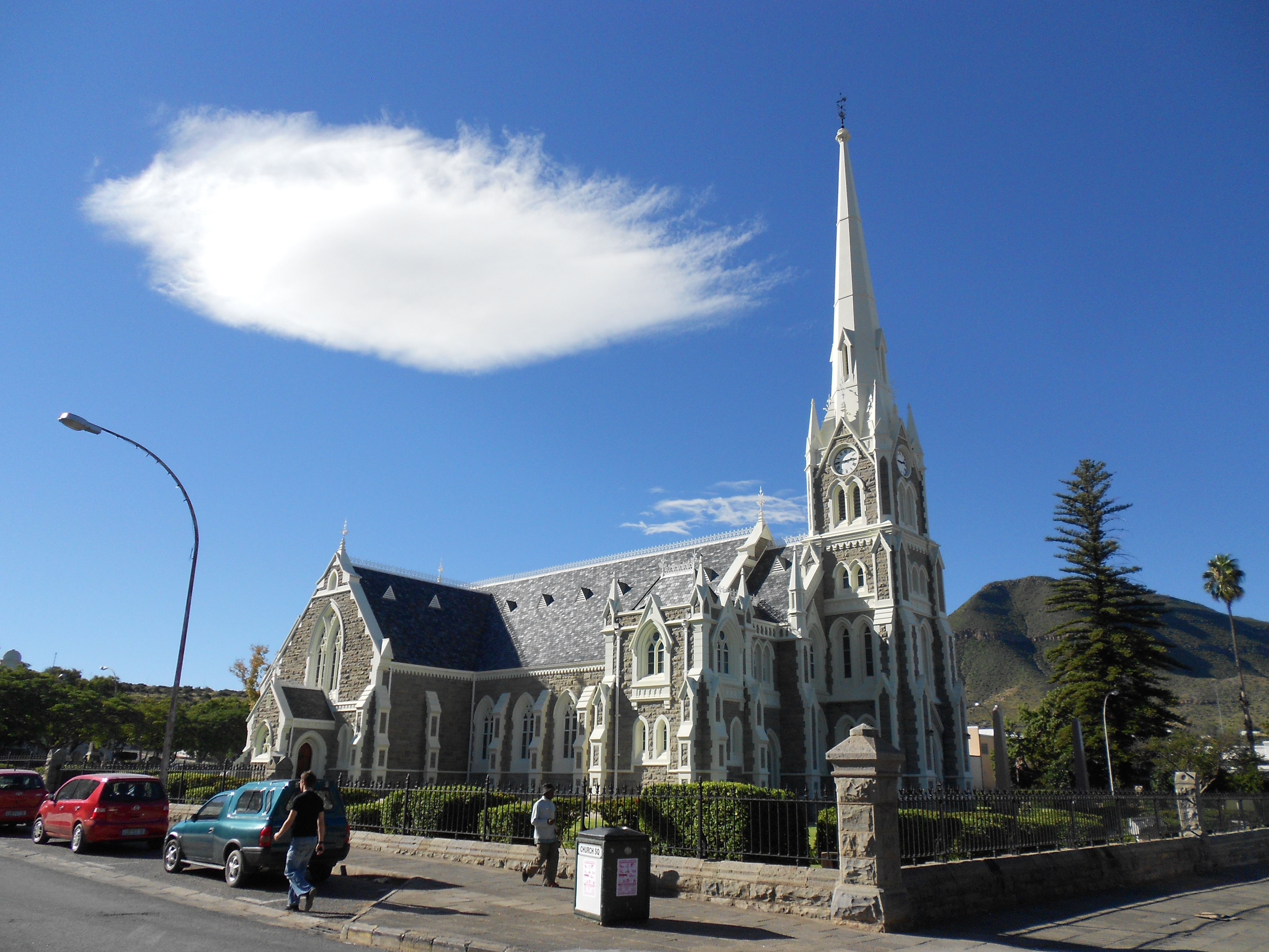 Dutch Reformed Church, Church Street, Graaff-Reinet This media shows a South African Protected Site with SAHRA file reference 9/2/033/0042.